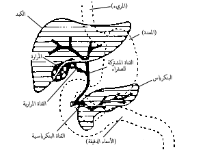 Digestive system diagram showing bile duct location.